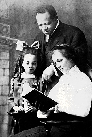 1919 photo McCants Stewart (1877 - 1919), first African American lawyer in Oregon, along with his wife Mayme Delia Weir and daughter Mary Katherine Stewart.